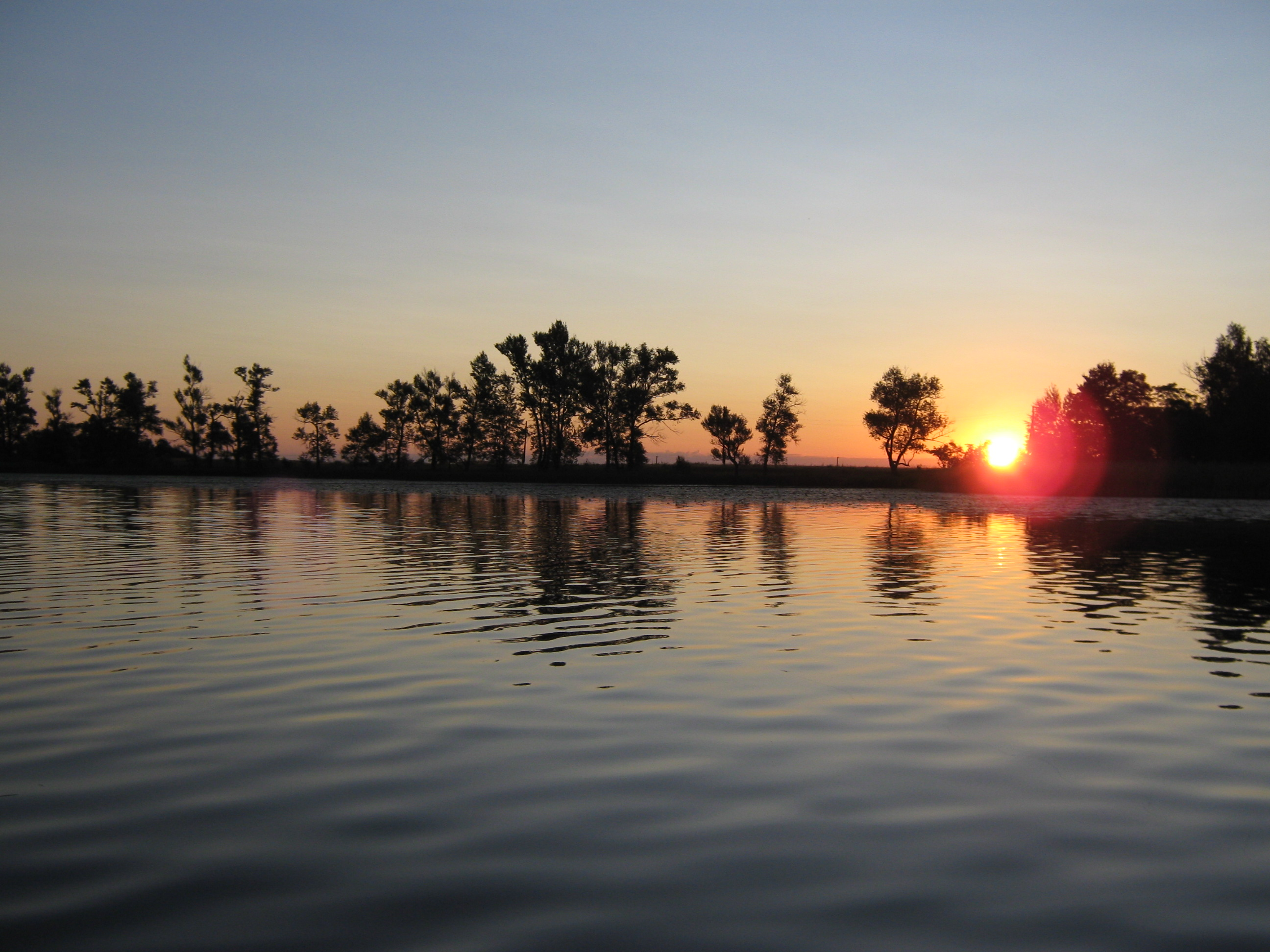 Lake Nobel near the eponymous village in Rivne Oblast, Ukraine